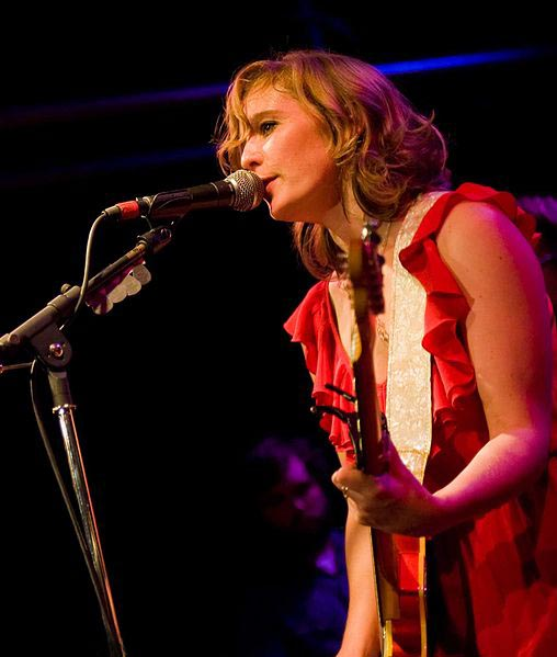 Tift Merritt @ Tractor Tavern, Seattle 11-16-2010